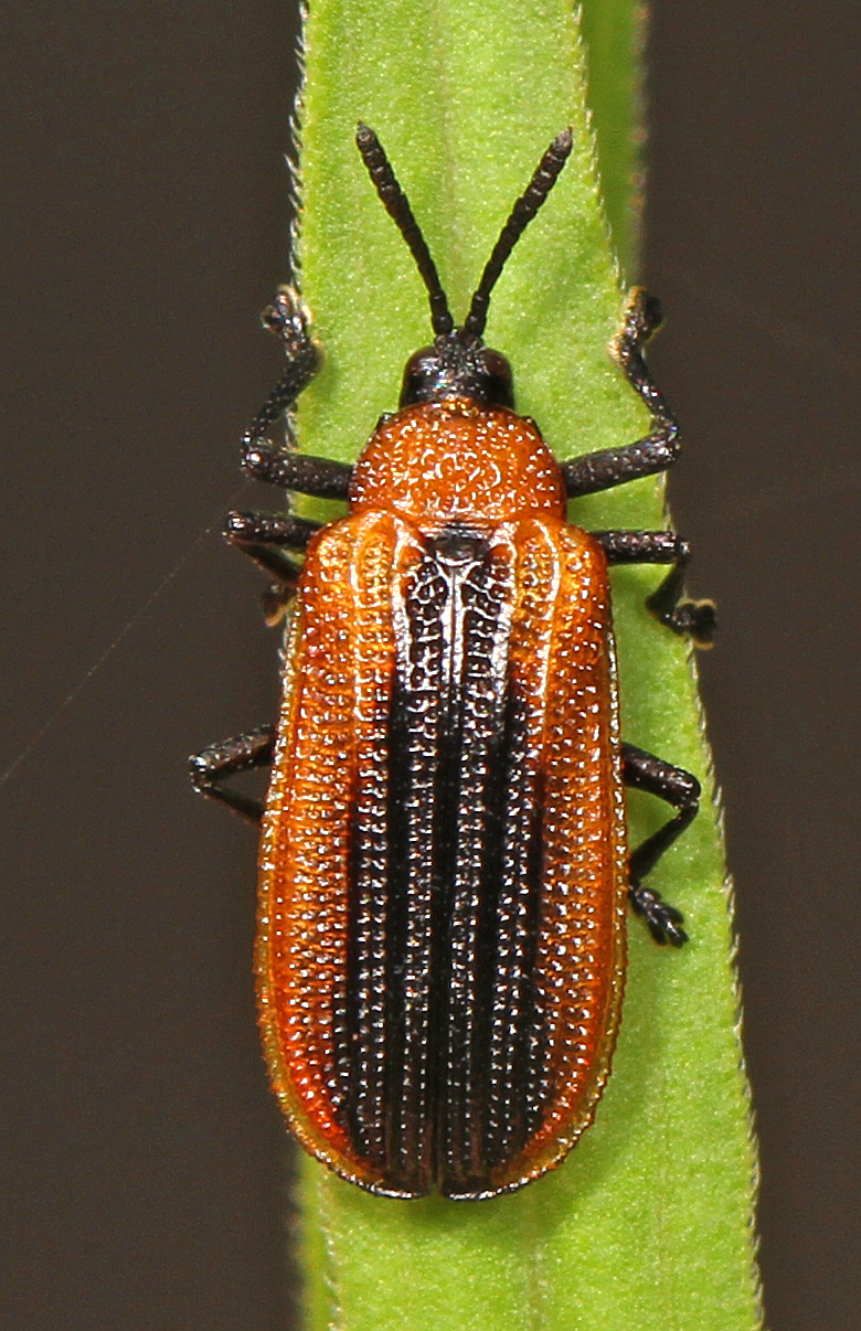 Locust Leaf Miner - Odontota dorsalis, Dans Mountain State Park, Lonaconing, Maryland. 8/29/2013 Allegany County